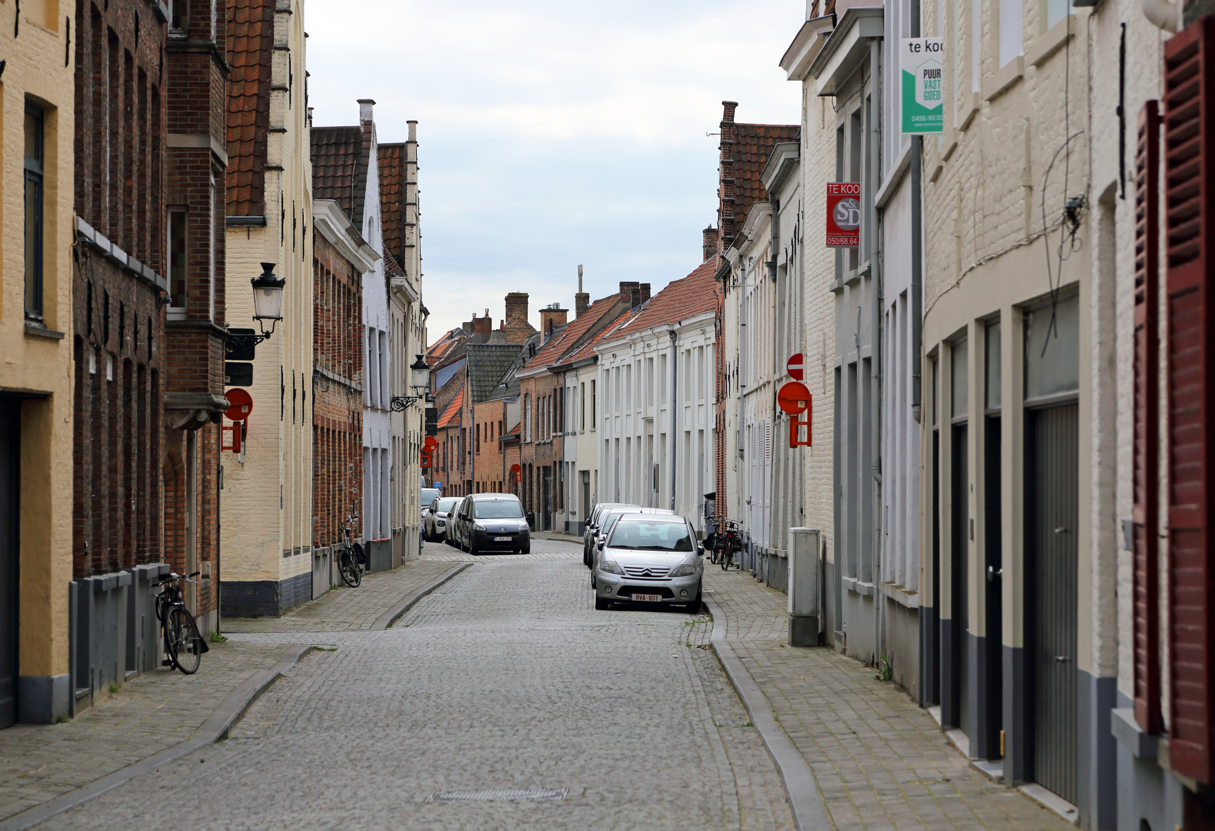 Bruges (Belgium): Zwarteleertouwersstraat